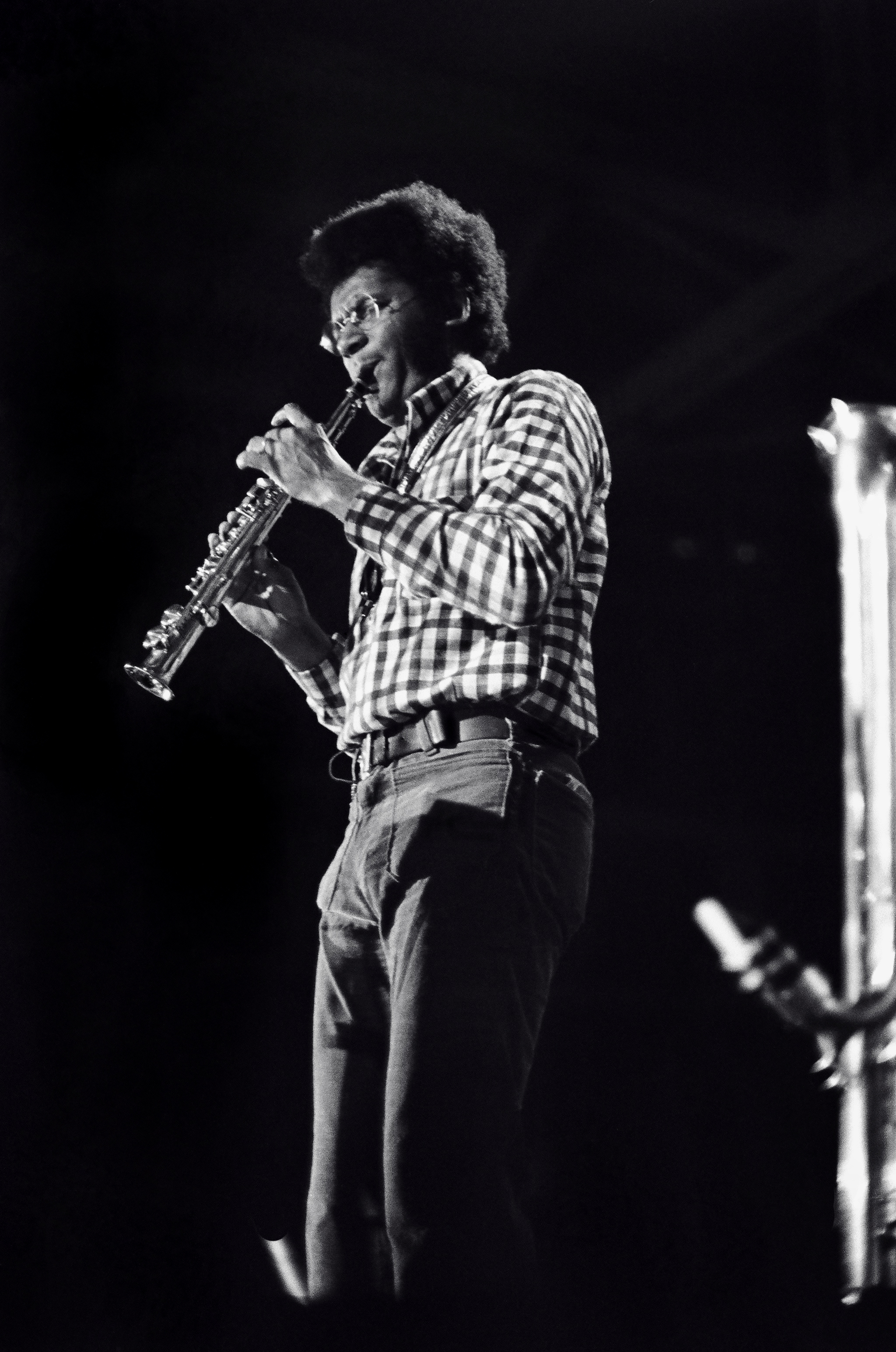 Anthony Braxton 1976